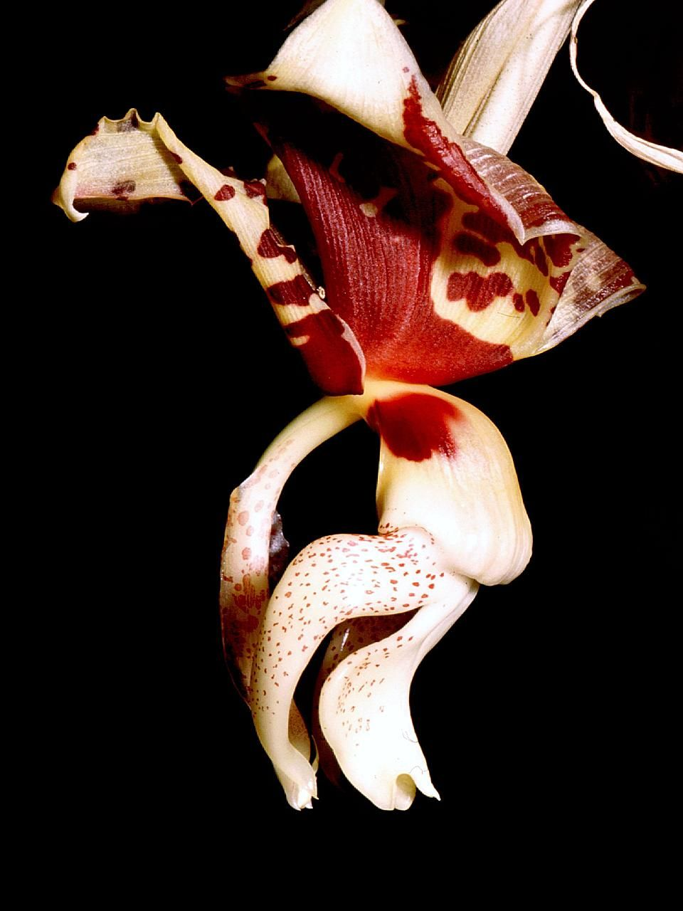 Stanhopea tigrina